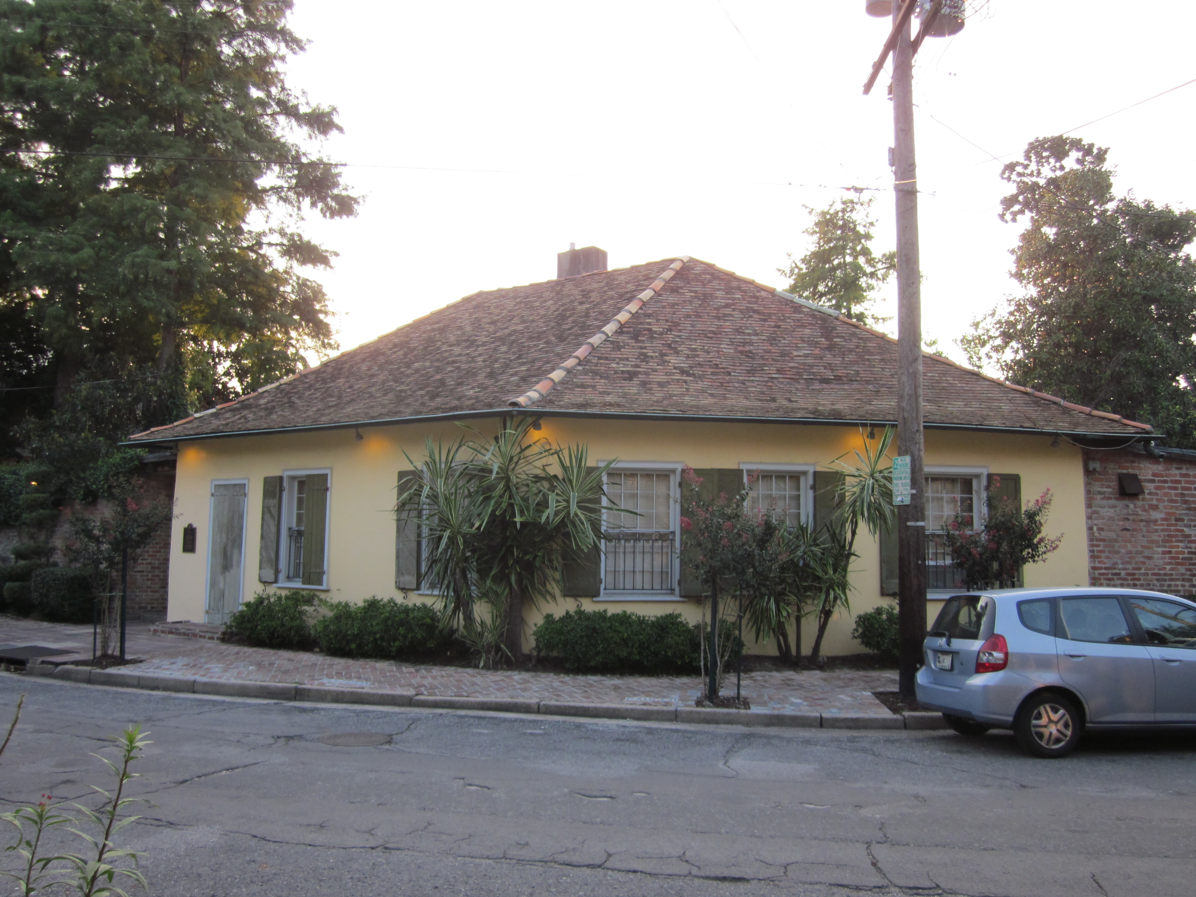 New Orleans: House at Bourbon & Pauger, Faubourg Marigny historic district.